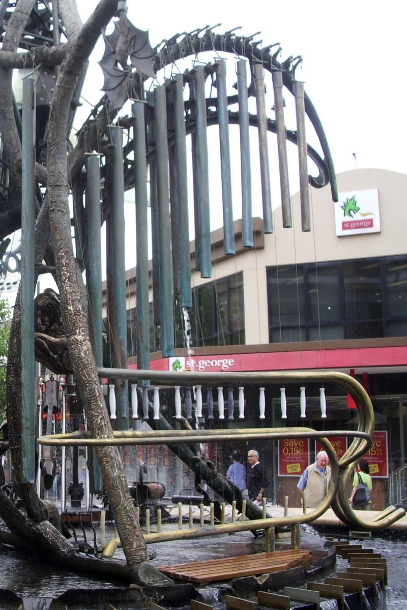 Hornsby water clock: detail of the carillon that chimes each hour